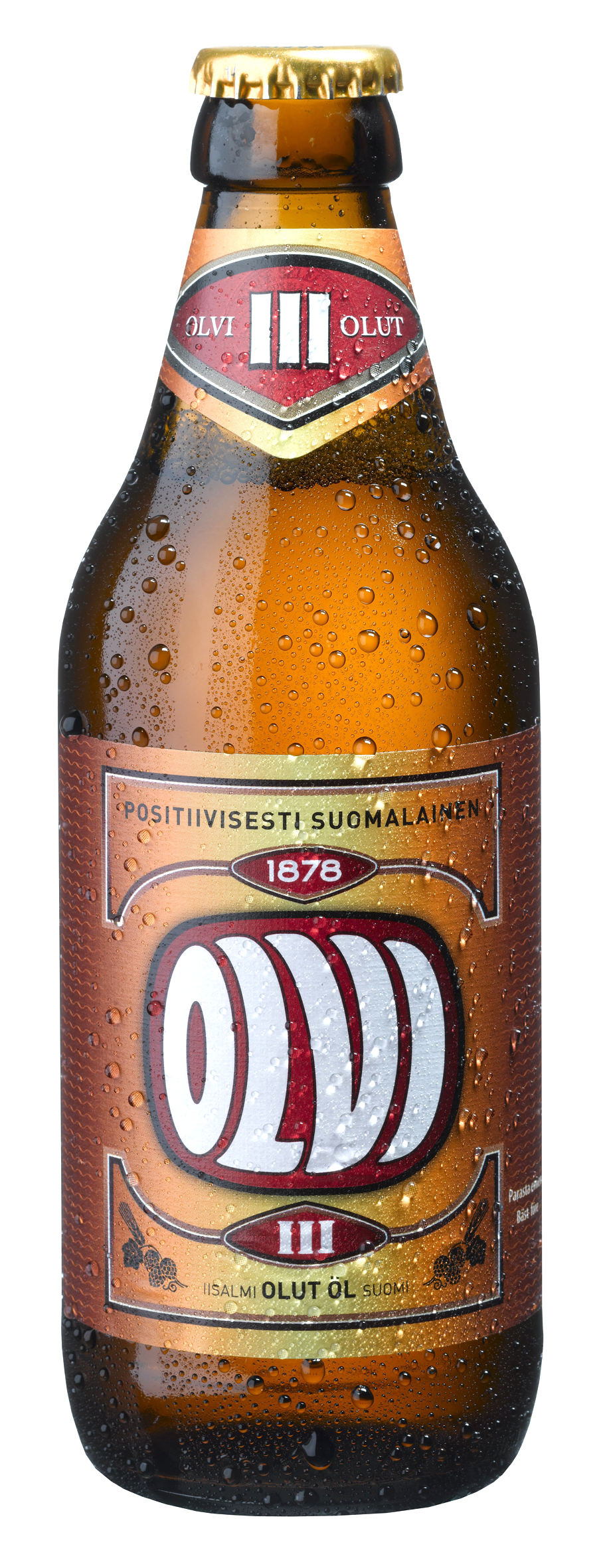 3D-model of Olvi's beer bottle